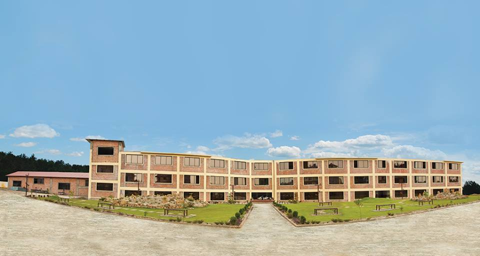 College